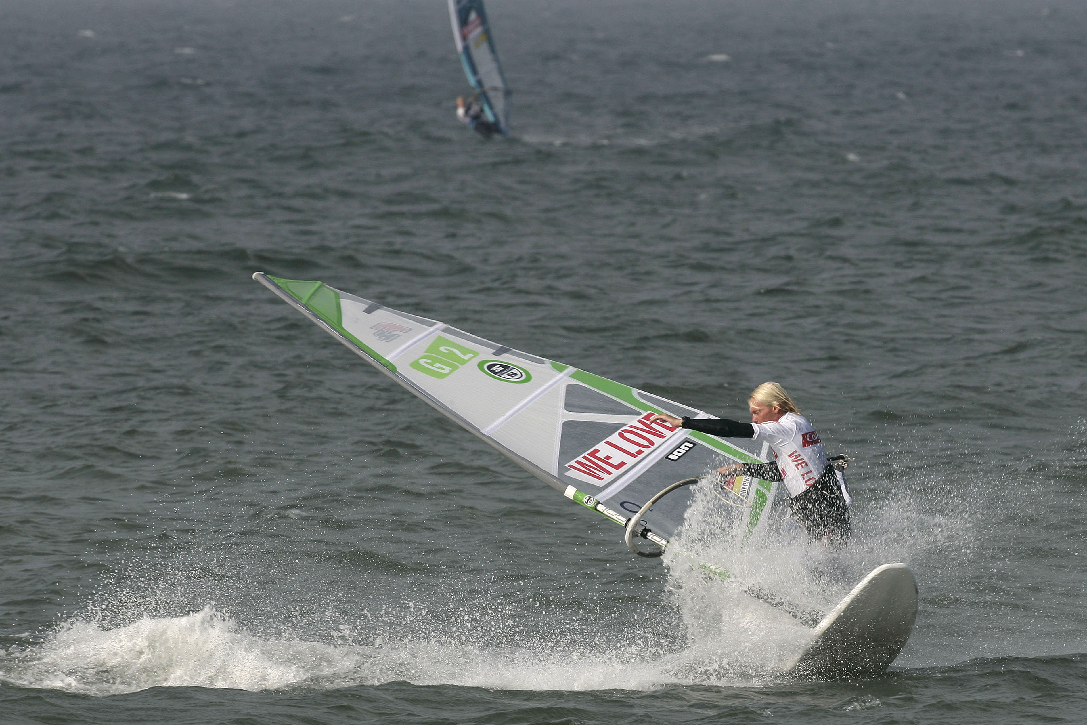 André Paskowski @ Windsurf World Cup Sylt 2007